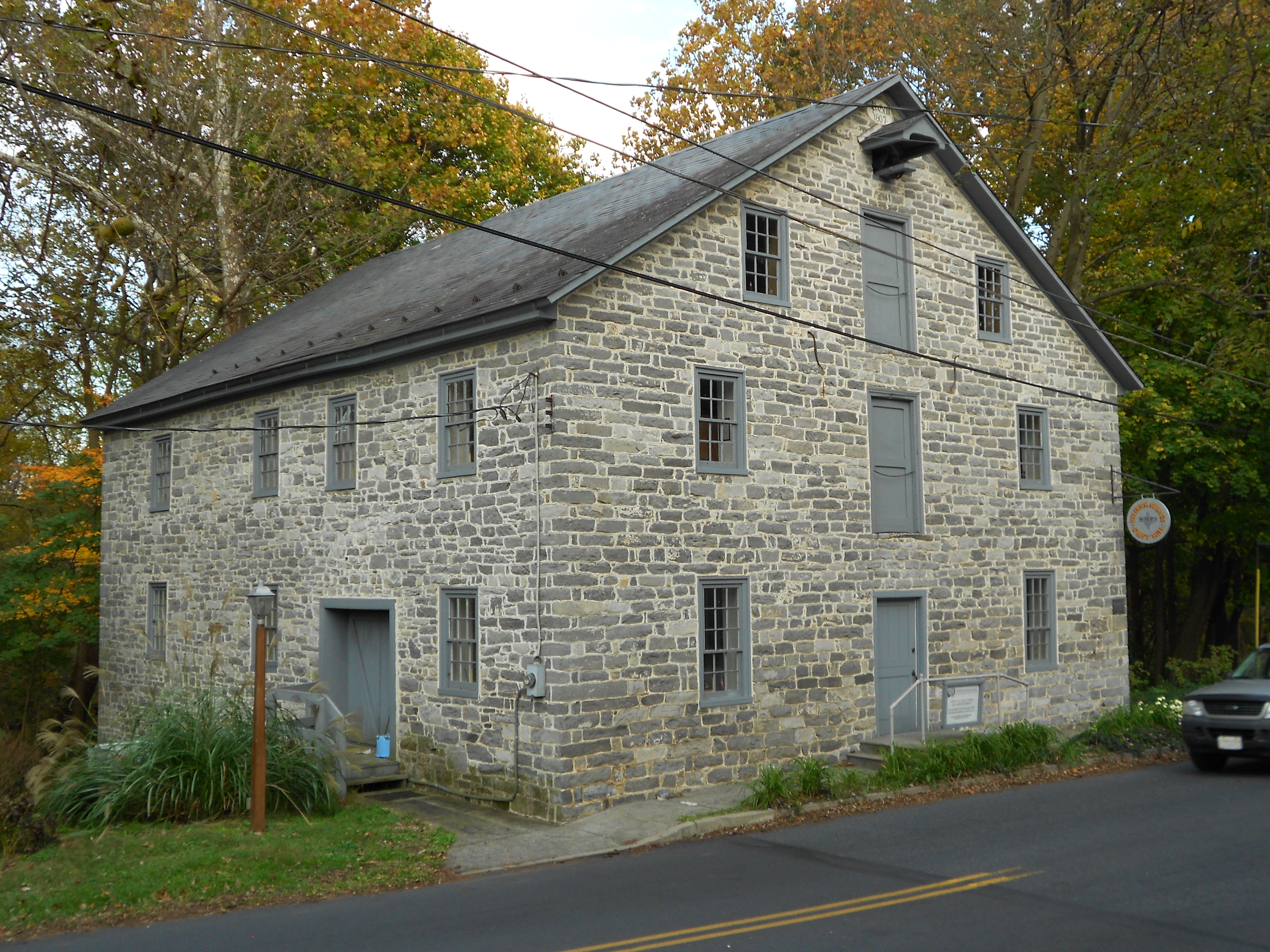 Helfrich's Springs Grist Mill on the NRHP since October 14, 1977. Located West of Fullerton on Mickley Road in Whitehall Township, Lehigh County, Pennsylvania. The limited access highway US 22 passes about 50 yards south, but is not directly connected.